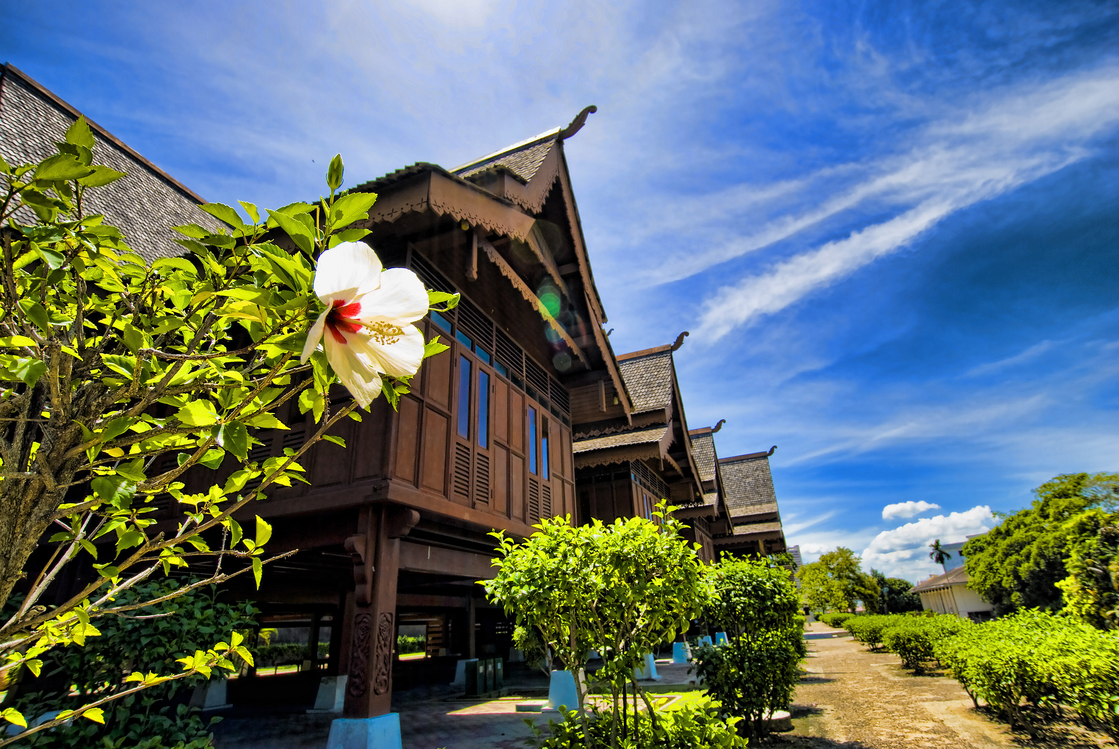 Malacca Sultanate Palace Museum